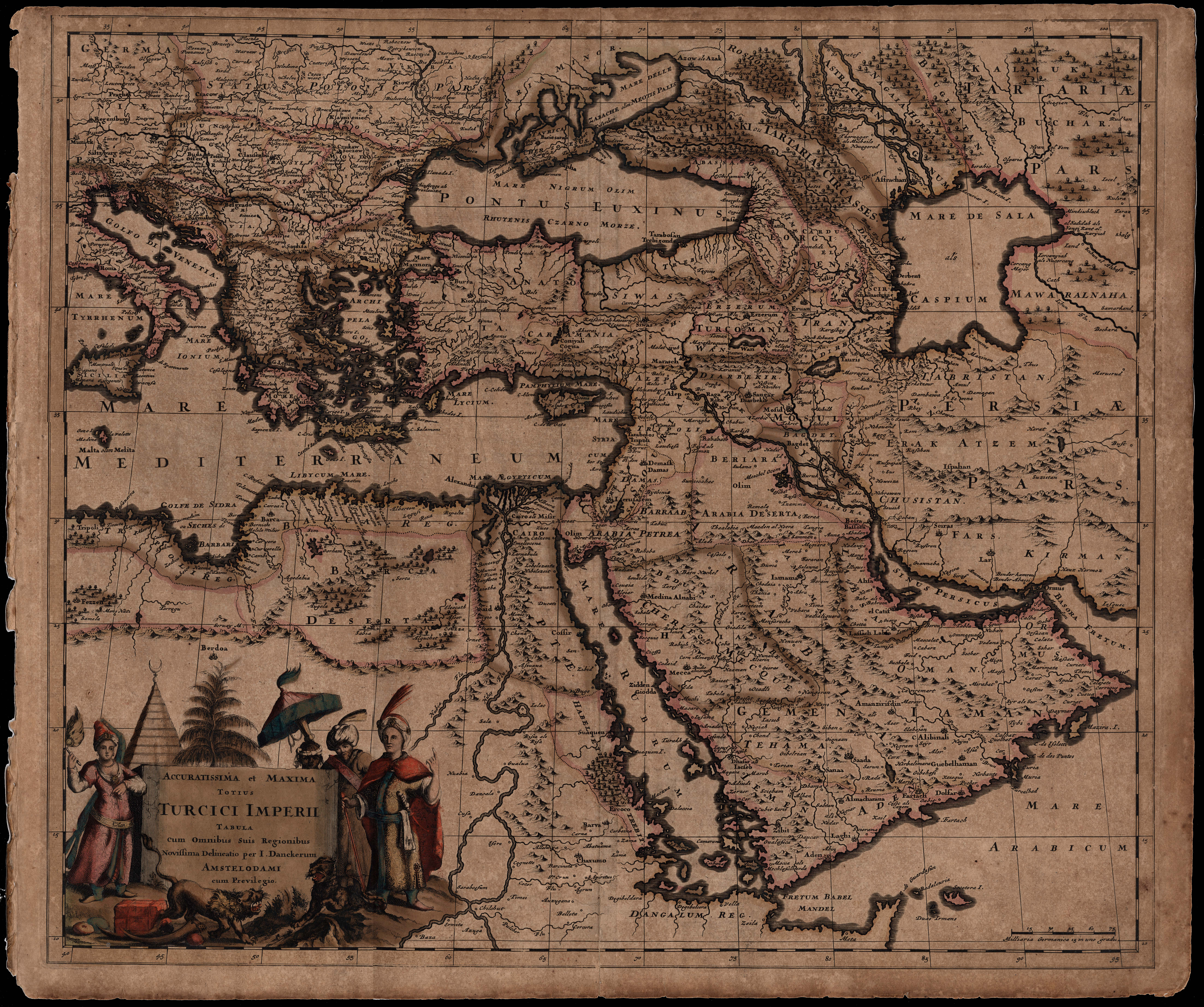 A map of Turkish possessions including Egypt and Greece by Justus Danckerts (1635-1701) shows the Arabian peninsula in the center. A decorative cartouche adorned with several costumed figures, a pyramid, and lions. Amsterdam. 52 x 62cm.